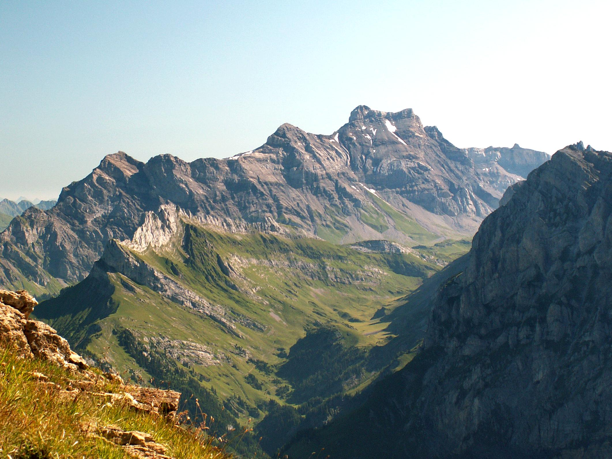 The summits of Argentine, 2422 m (center left) and Diablerets, 3210 m (background), Vaud Alps. The Col des Essets (2029m) is visible on the right. The Pas de Cheville (2038m) between Vaud and Valais is further on the right, almost not visible on the photo.